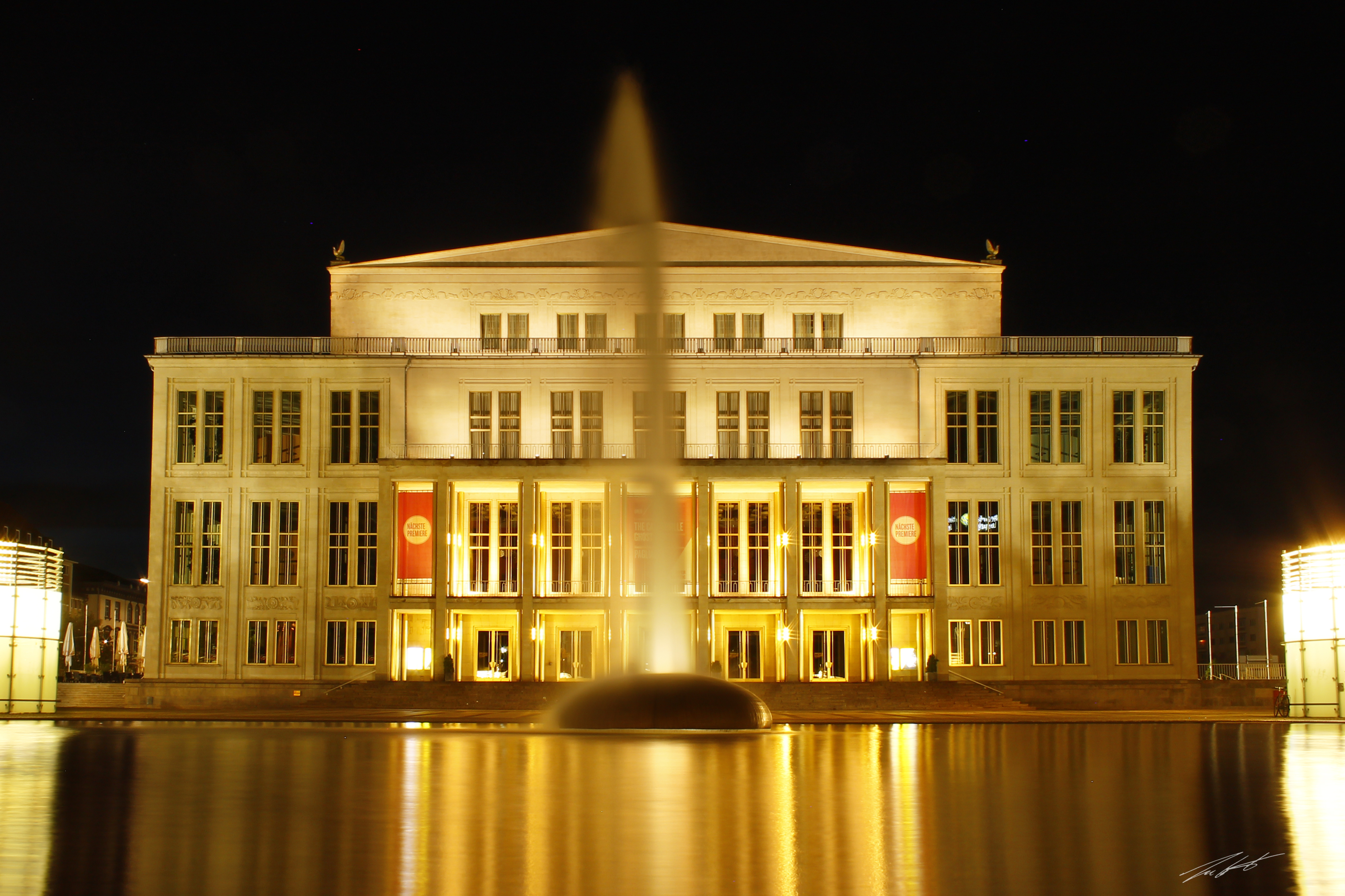 Leipzig, Leipzig Opera. Wikidata has entry Q267248 with data related to this item.